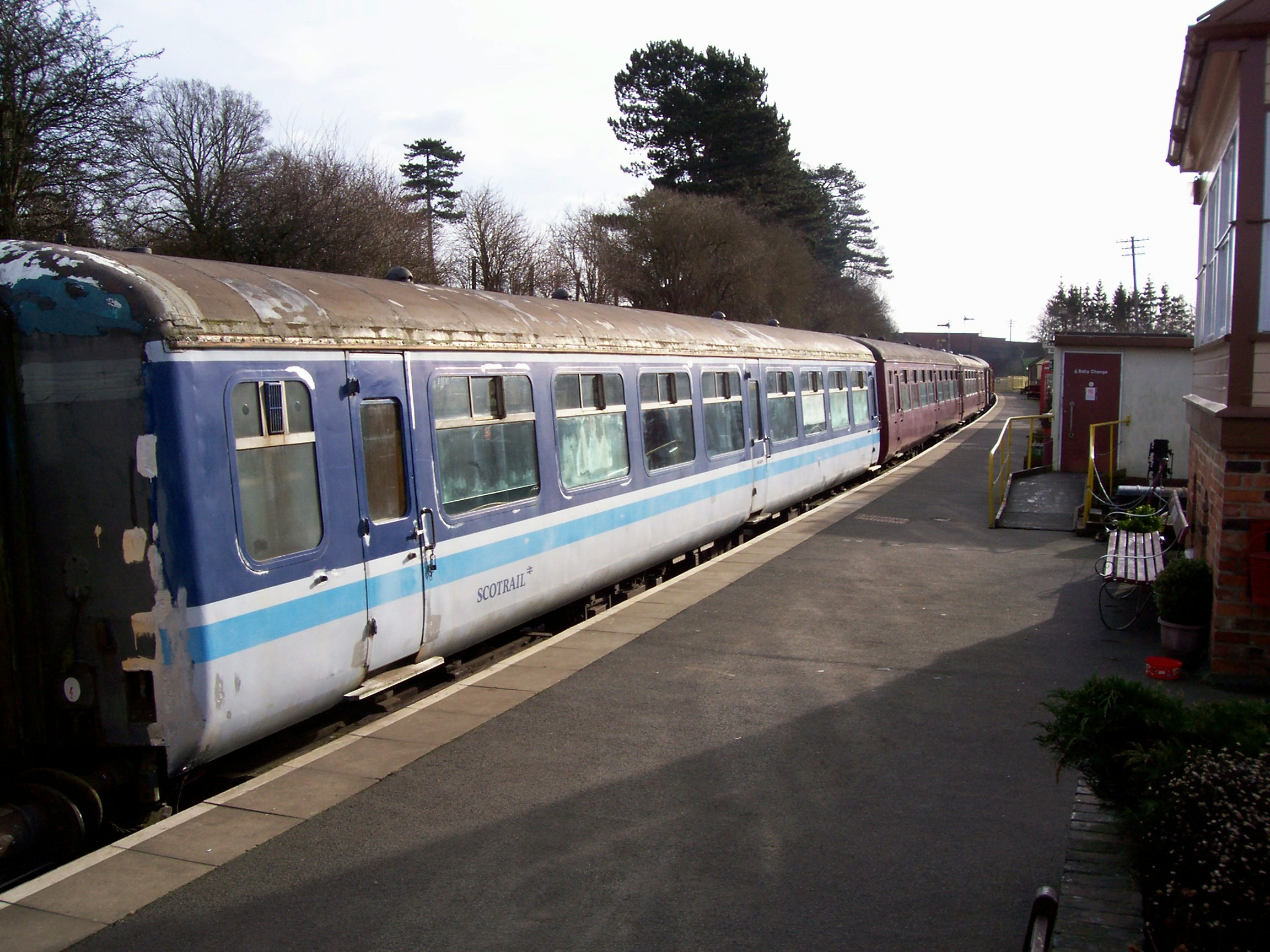 A rake of Mark 2 vehicles at Pitsford & Brampton. 5174 is nearest the camera.